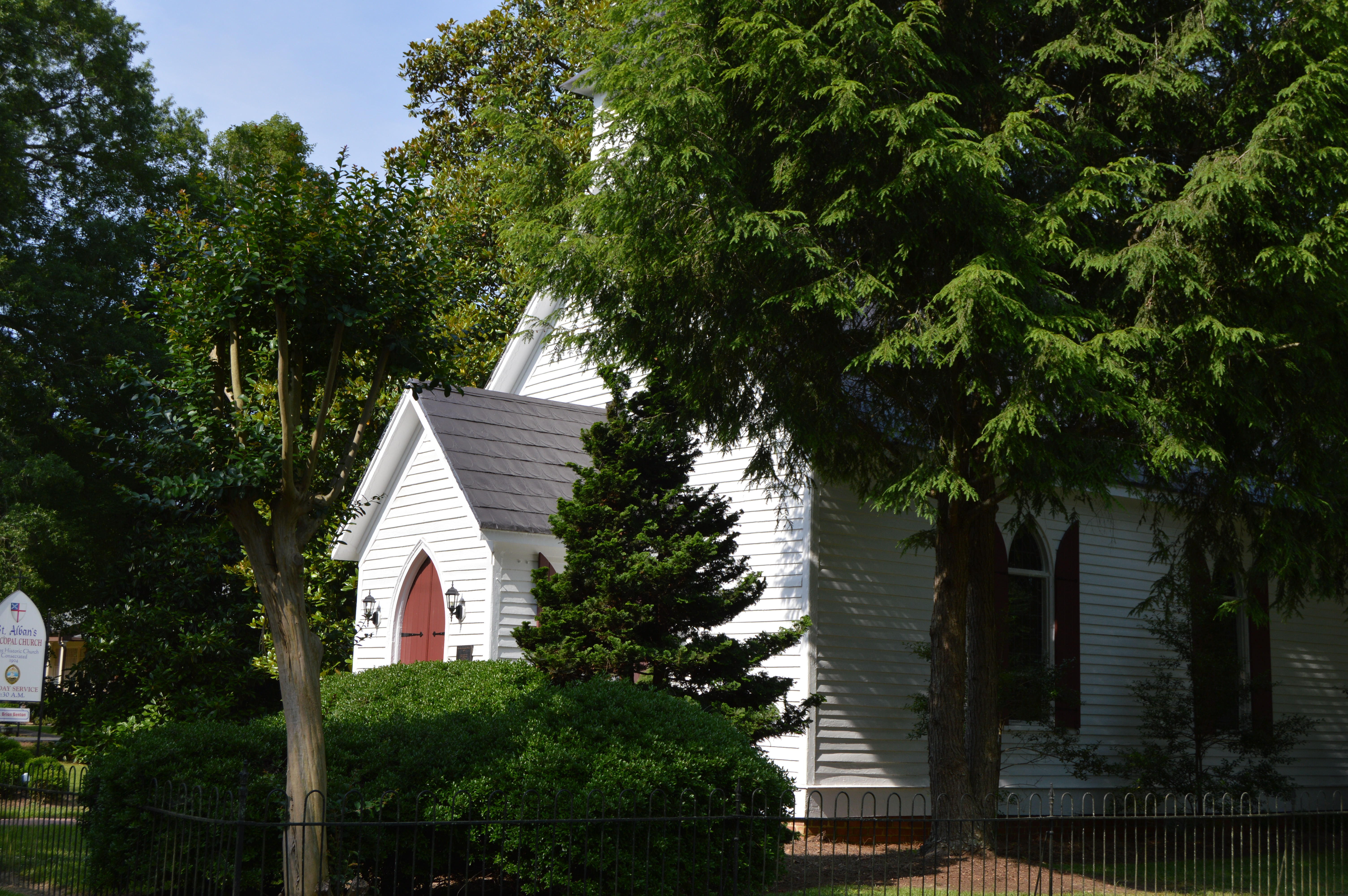 Northeastern angle of St. Alban's Episcopal Church, located at 300 Mosby Avenue (North Carolina Highway 4) in Littleton, North Carolina, United States. Built in 1891, it is listed on the National Register of Historic Places.